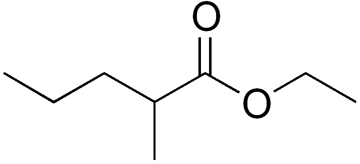 chemical structure of manzanate (ethyl 2-methylpentanoate, ethyl alpha-methylvalerate, melon valerate)